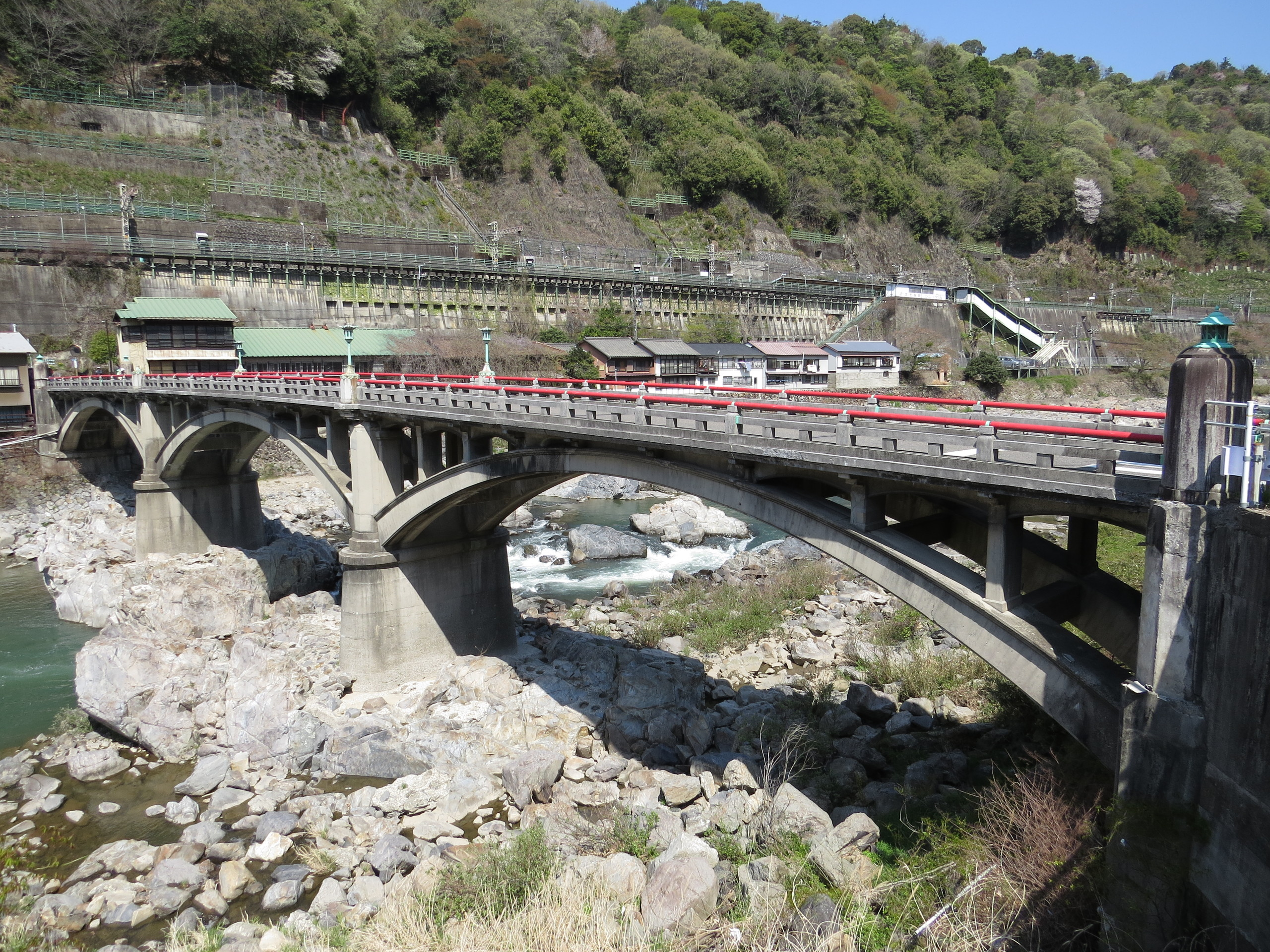 The Shirogane Bridge over the Shonai River on the border of Seto and Kasugai Cities, Aichi Prefecture, Japan, with Jōkōji Station on the Chuo Main Line in the background